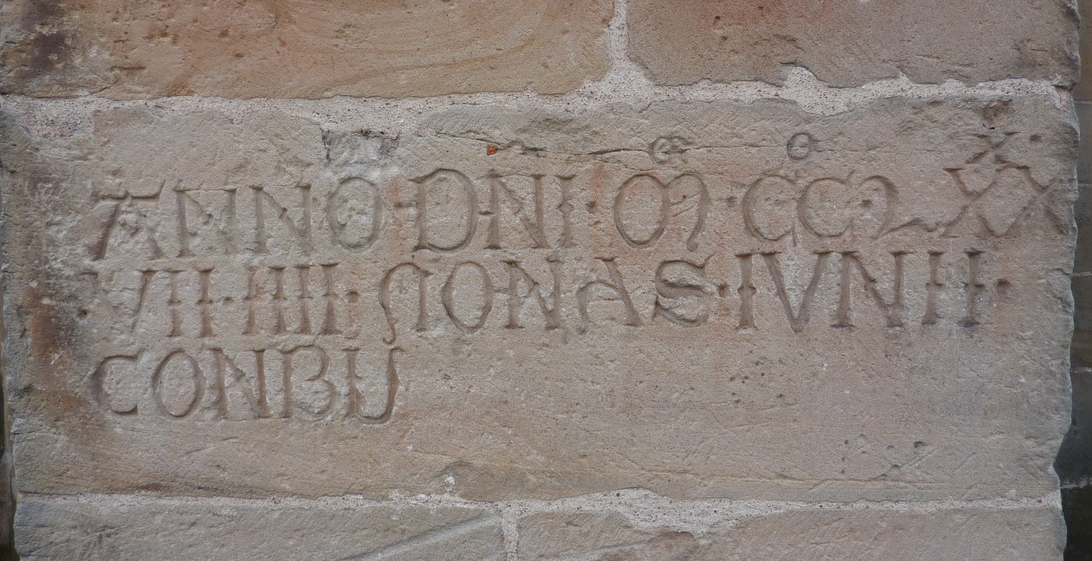 Dated stone in the outside wall of the collégiale Saint-Florent de Niederhaslach, Alsace, France